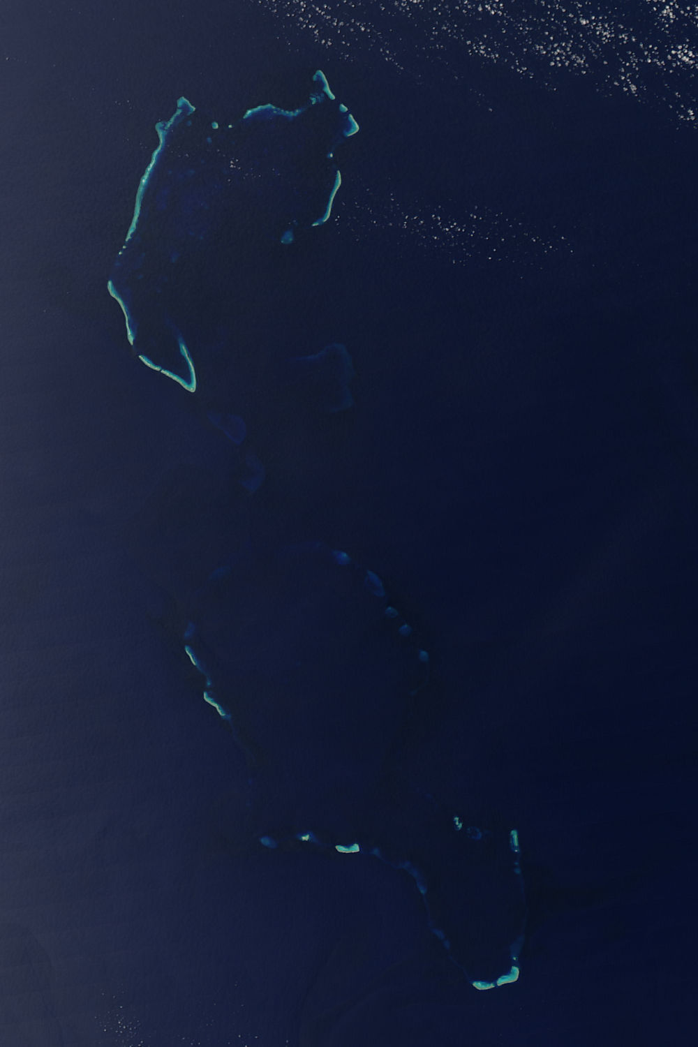 Îles Chesterfield/Chesterfield Reef. Credit Jacques Descloitres, MODIS Rapid Response Team, NASA/GSFC The underwater reefs around the Iles Chesterfield are easier to spot in this Moderate Resolution Imaging Spectroradiometer (MODIS) than the islands themselves. Tan slivers of land are barely visible in the image, but the underwater coral reflects light, making the ocean glow a brilliant blue. The islands are part of New Caledonia, a French territory, and are located roughly 1,000 kilometers northeast of Australia in the Coral Sea. MODIS on NASA’s Aqua satellite captured this image on October 7, 2004.